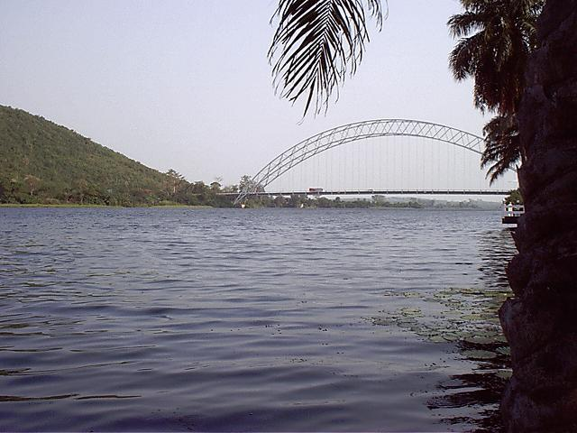 ヴォルタ川の流れと川に架かる橋。英語版en:Image:VoltaRiverWithAdombeBridge183.JPGより転載。